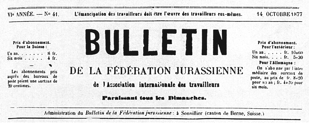 The Bulletin de la Fédération Jurassienne was the newspaper of the Jura federation and was published from February 15, 1872 until 1878.